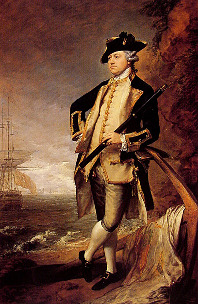 Commodore the Hon. Augustus Hervey, later Vice-Admiral, and 3rd Earl of Bristol (1724-1779)